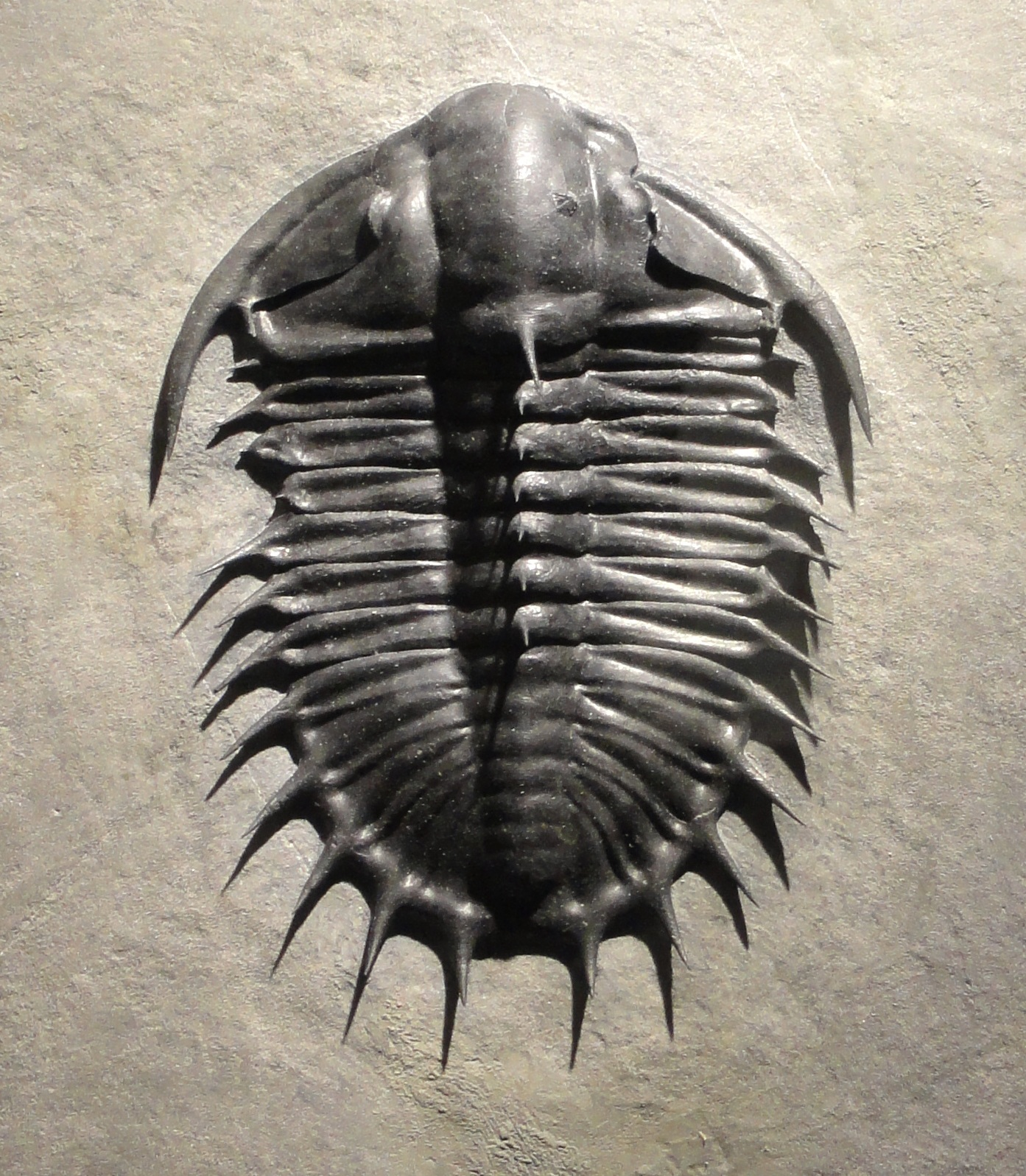 An Olenoides superbus trilobite, Order Corynexochida, Family Dorypygidae, collected from the Upper Marjum Formation, House Range, Millard County, Utah, USA, lived during the late Middle Cambrian, exhibited in the Houston Museum of Natural Science, Houston, Texas, USA.